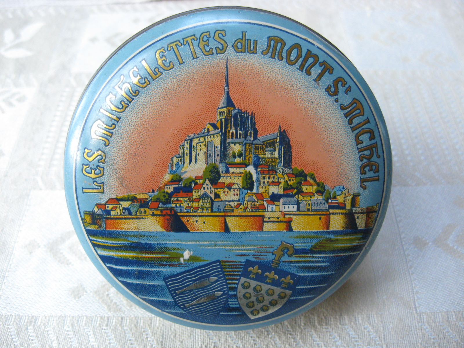 Box of French confectionery called Michelettes du Mont Saint-Michel.